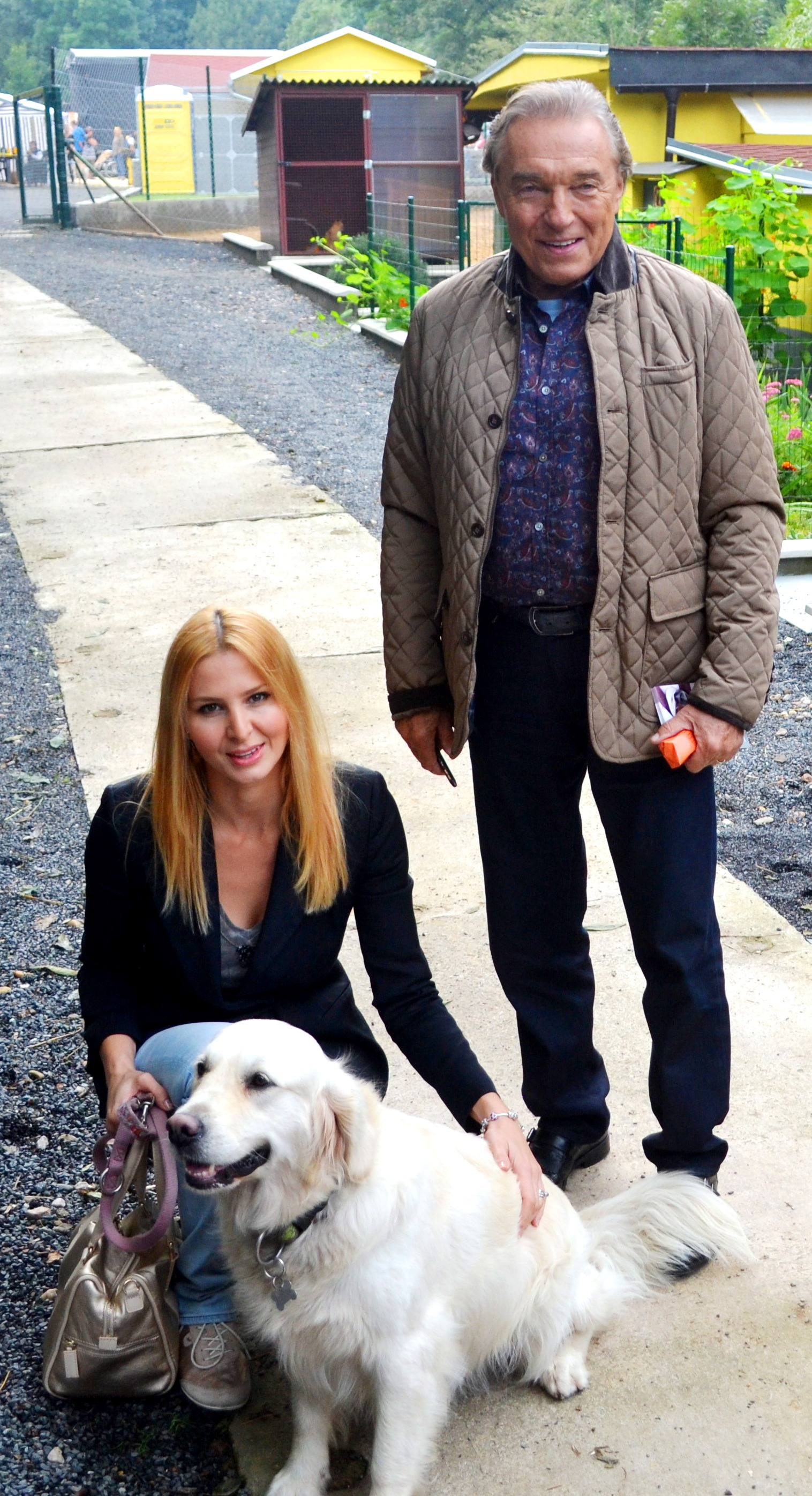 Karel Gott, Czech vocalist, with his wife, Ivana Gottová, Czech TV presenter